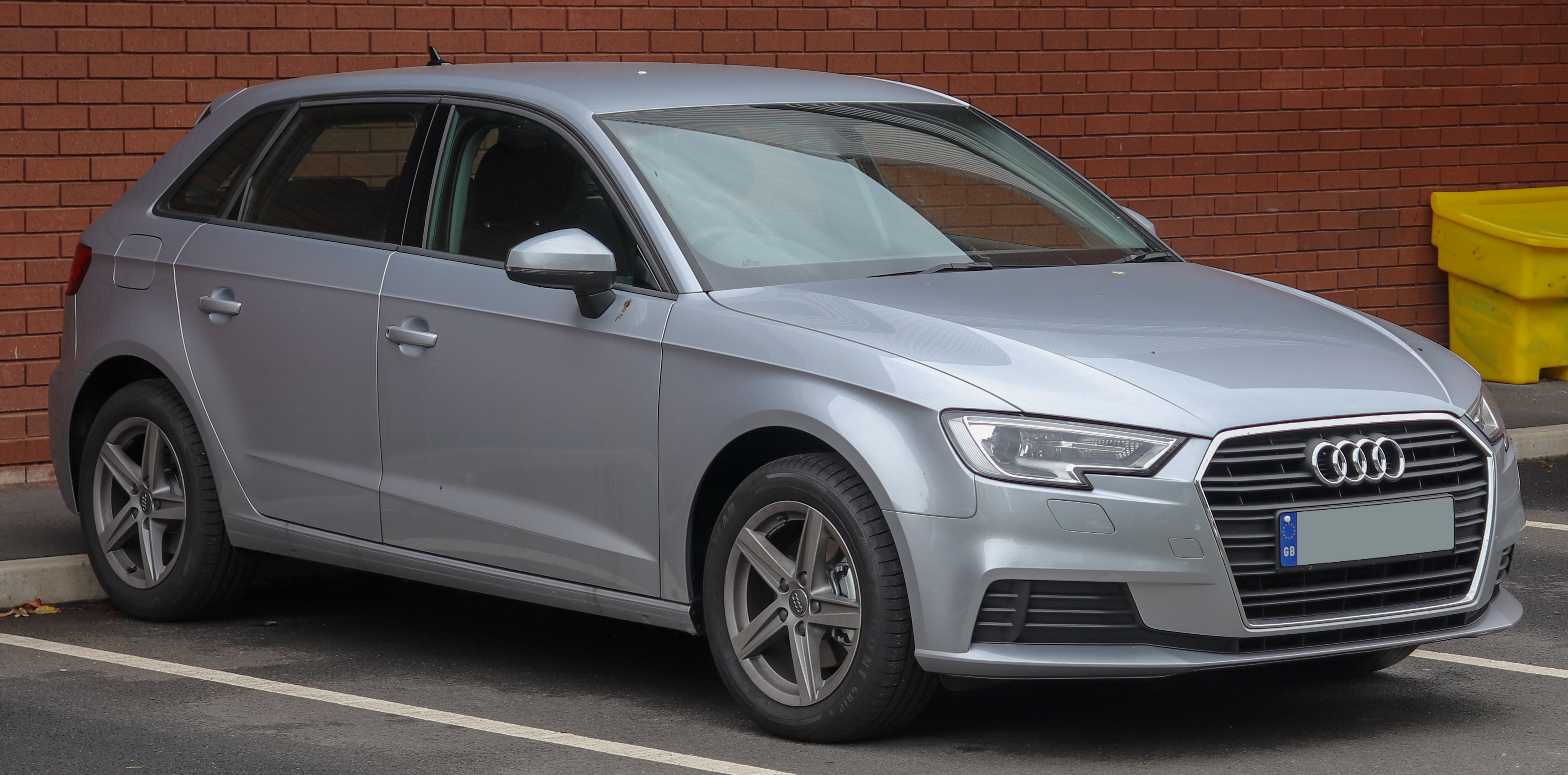 2019 Audi A3 SE Technik 30 TDi 1.6 Taken in Leamington Spa